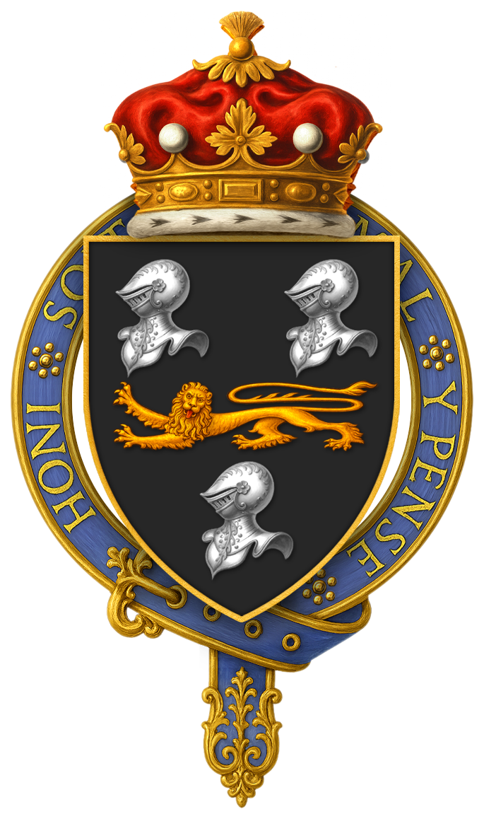 Garter-encircled shield of arms of William Compton, 5th Marquess of Northampton, KG, as displayed on his Order of the Garter stall plate in St. George's Chapel.